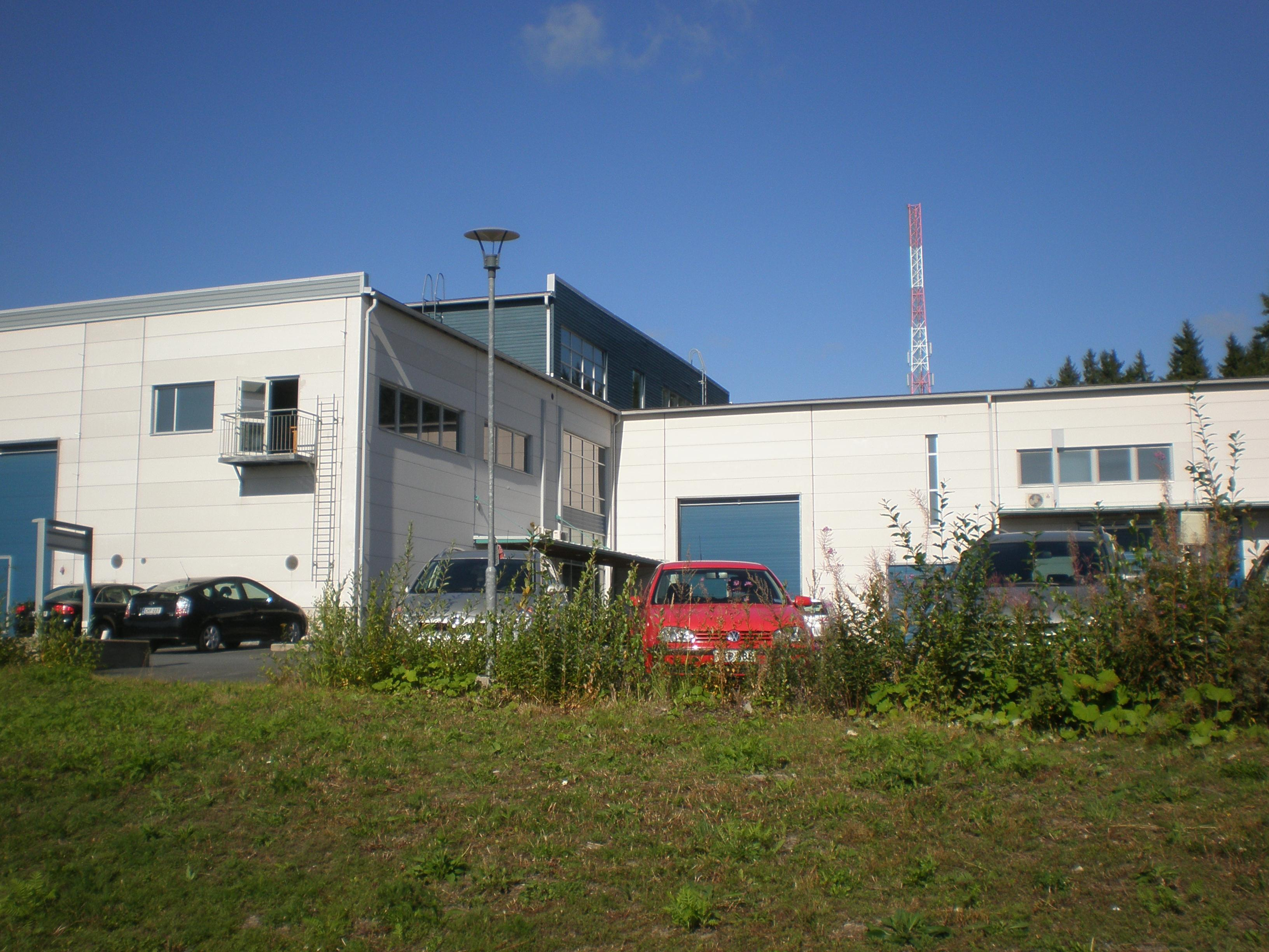 Akun tehdas, building where are located many multimedia companies